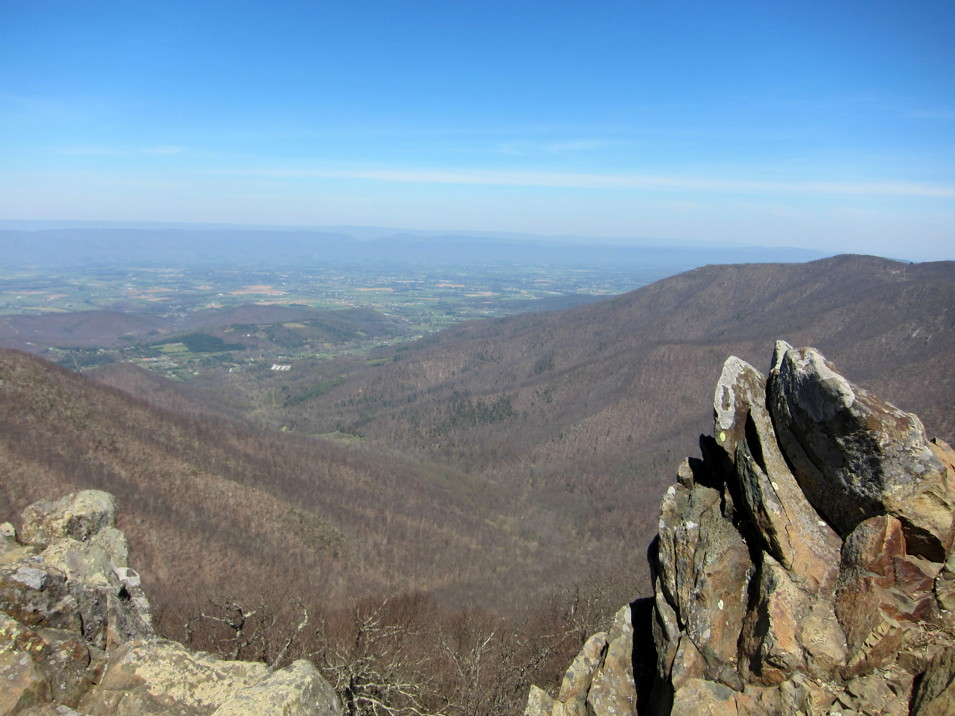 The view from Hawksbill Mountain, elevation 4,050 feet (1,230 m). The mountain is the highest peak in Shenandoah National Park, Virginia, United States. The peak is reached by a short hike from Skyline Drive.